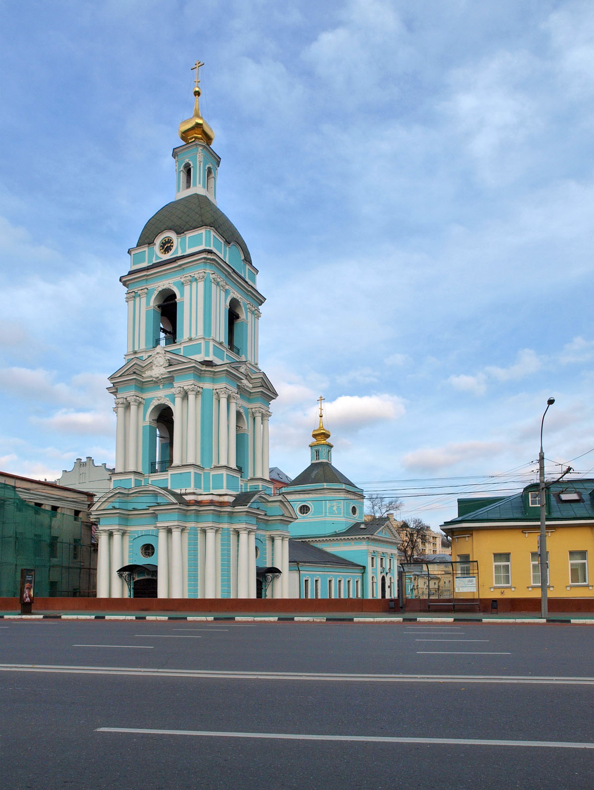 Belltower of Trinity in Serebryaniki, Moscow